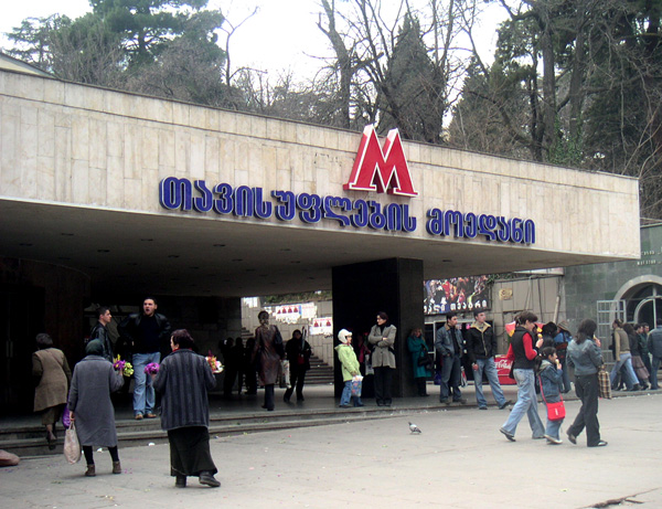 Entry to metro station at Tavisuplebis Moedani, Tbilisi.